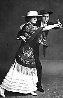 George Grossmith as Lord Bicester and Phyllis Dare as Delia Dale in The Sunshine Girl, 1912.